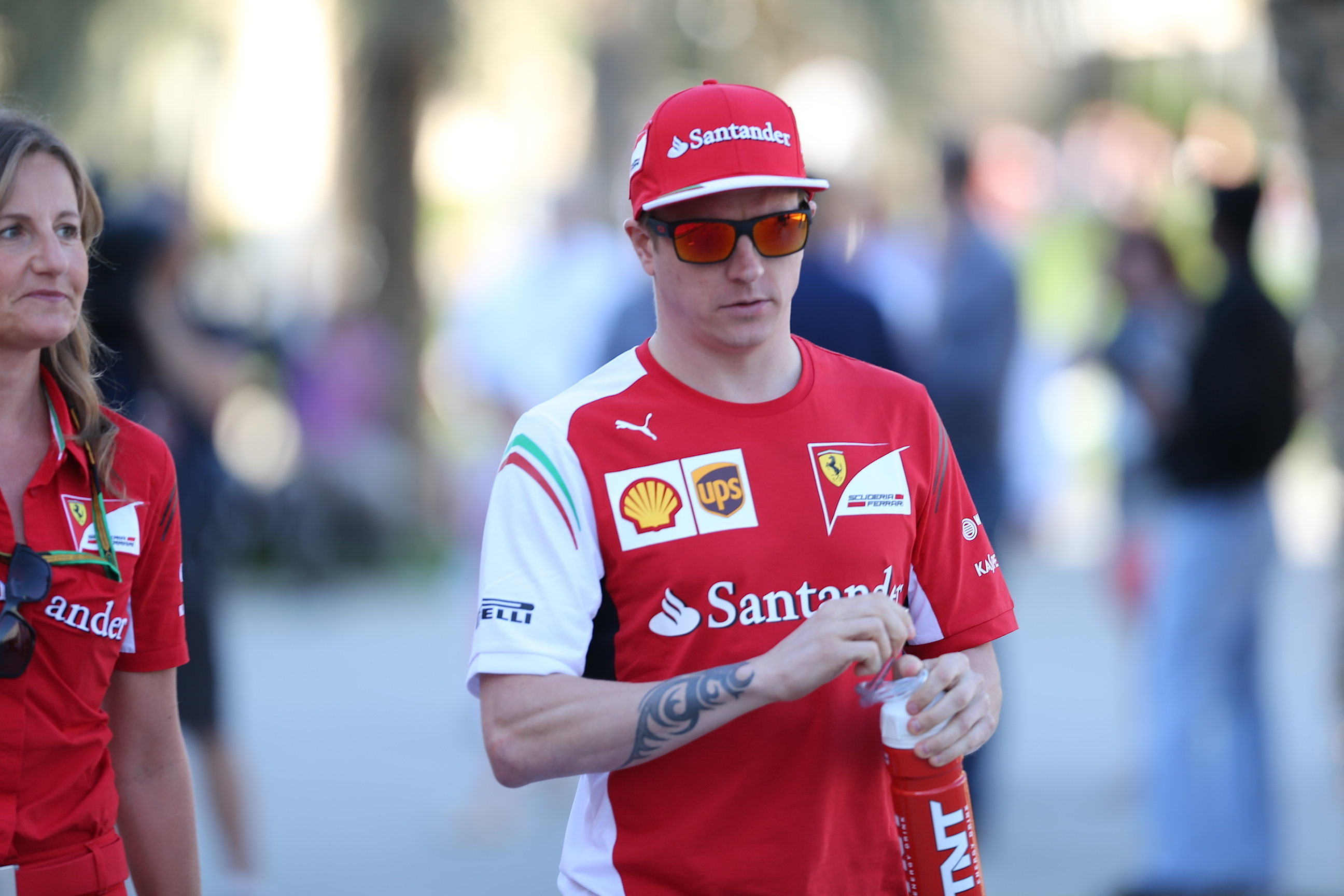 Kingdom of Bahrain